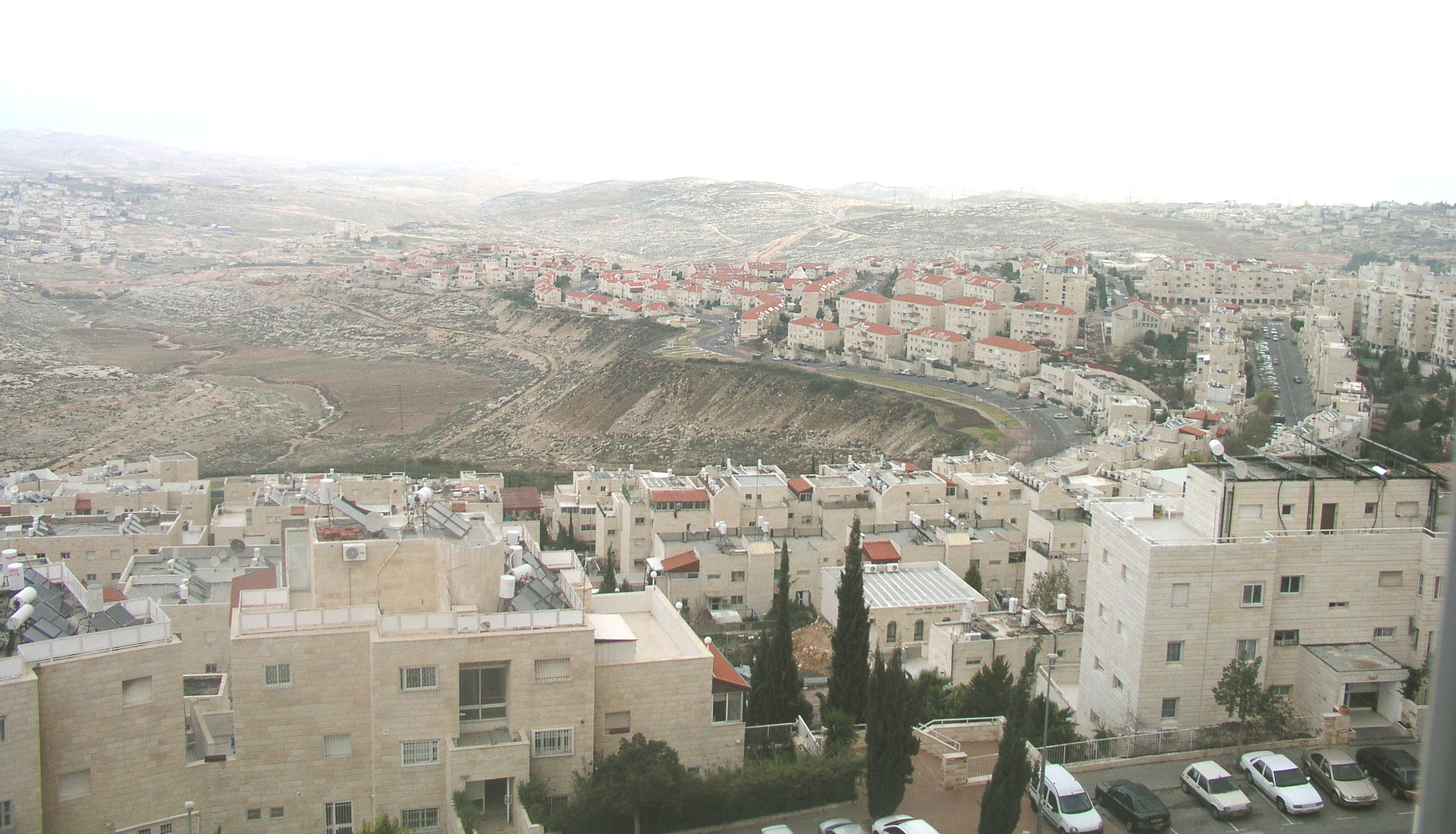 View of The Jerusalem neighborhood Pisgat Ze'ev West, st. Rakhmilevich